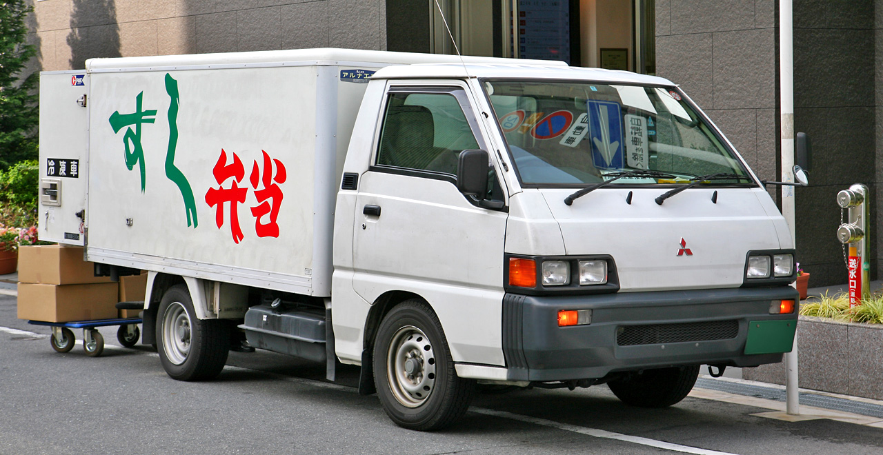 Third (and harf) generation Mitsubishi Delica truck with Alna Yano Refrigerator van body.